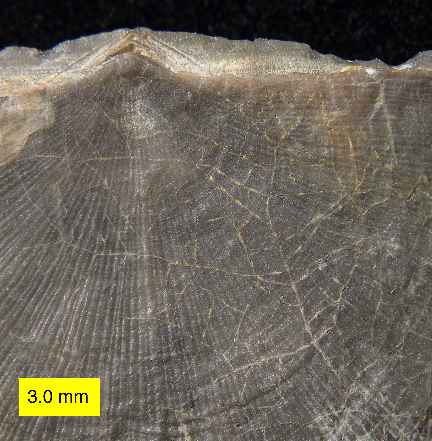 Ropalonaria venosa, the etching trace of a ctenostome bryozoan on a strophomenid brachiopod; Upper Ordovician of southeastern Indiana.